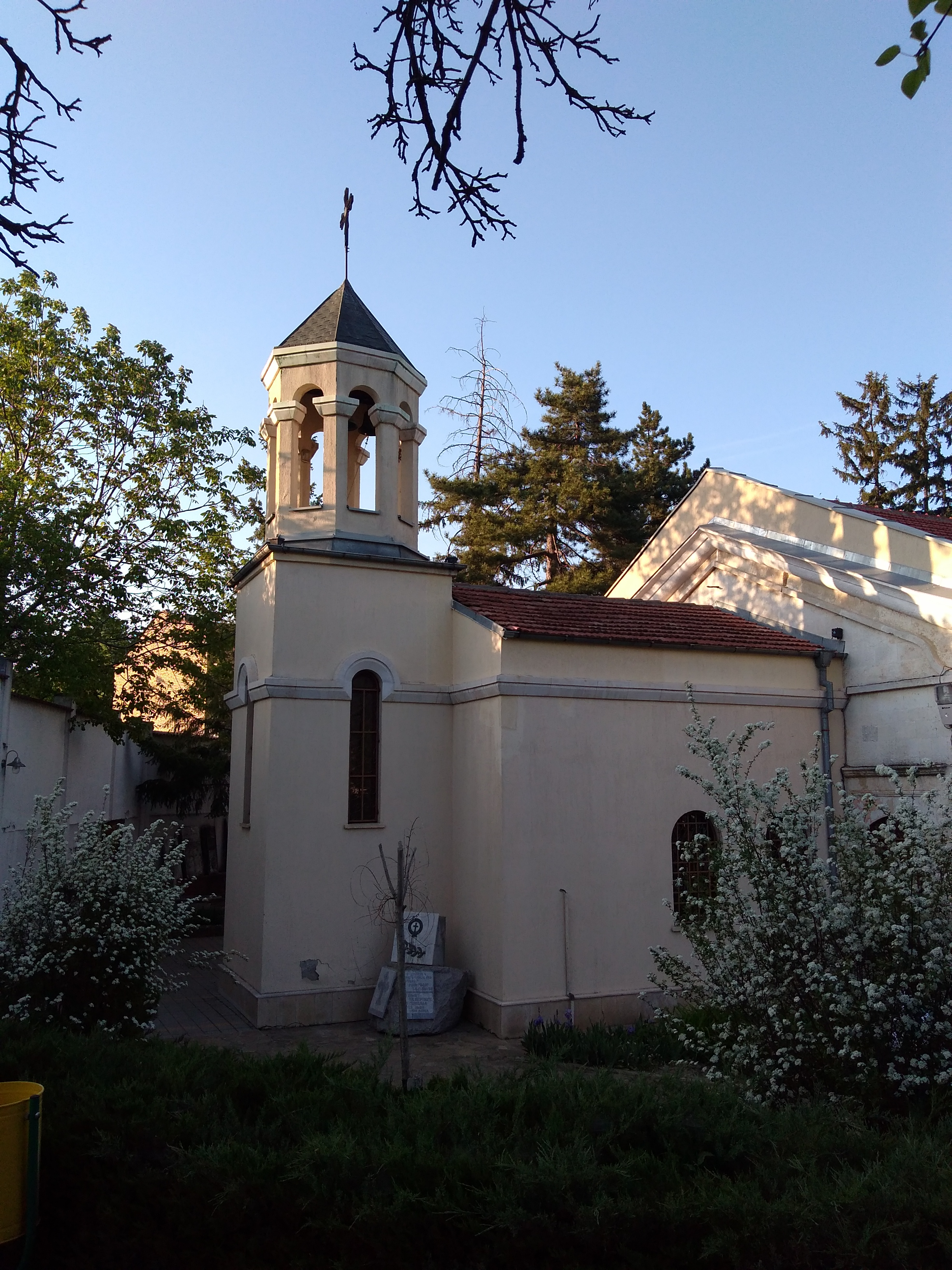 Armenian church in Shumen